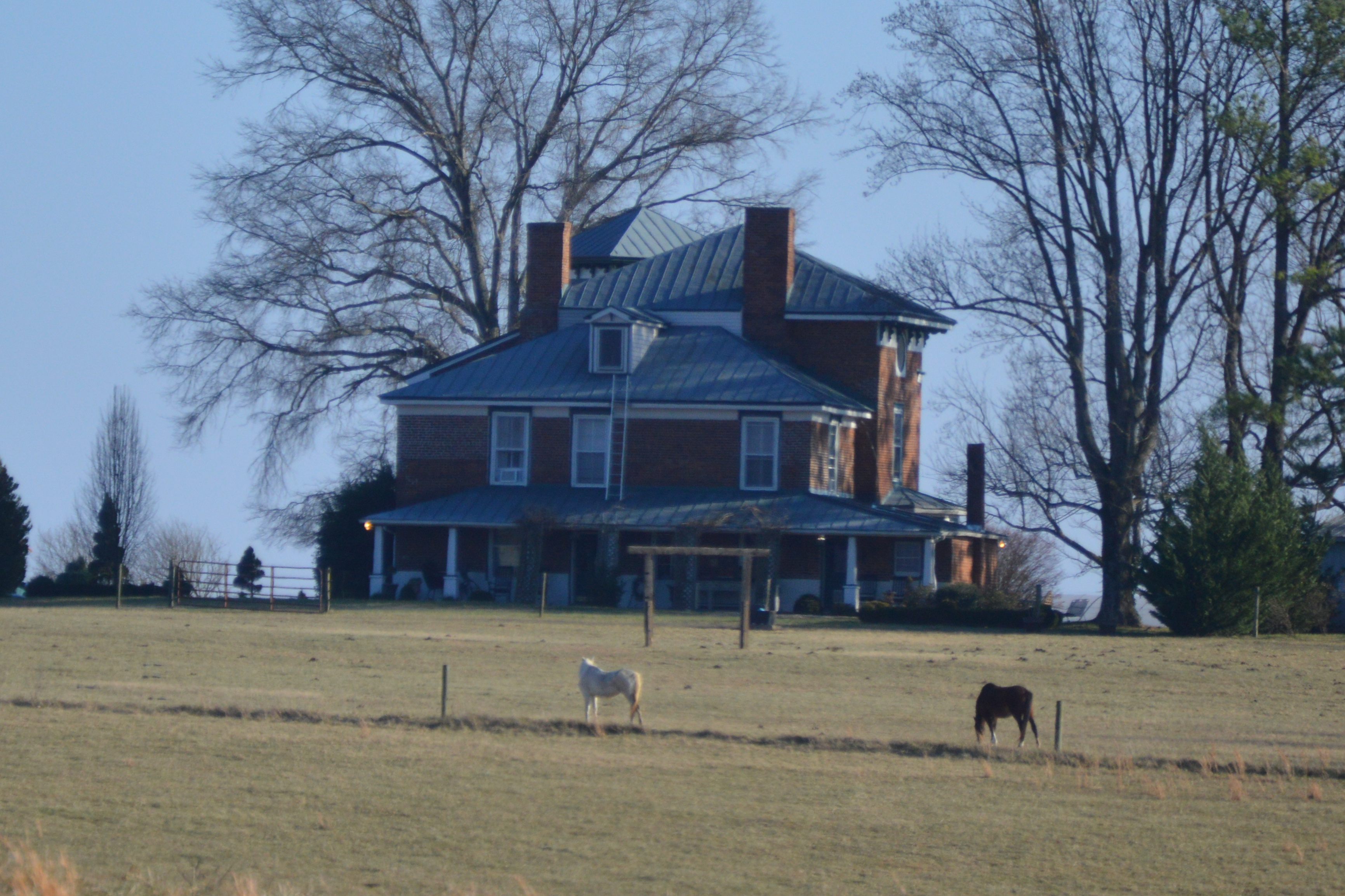 Roadside view of the Fairview bed-and-breakfast, located at 2416 Lowesville Road south of Lowesville in Amherst County, Virginia, United States. Built in 1867, it is listed on the National Register of Historic Places.